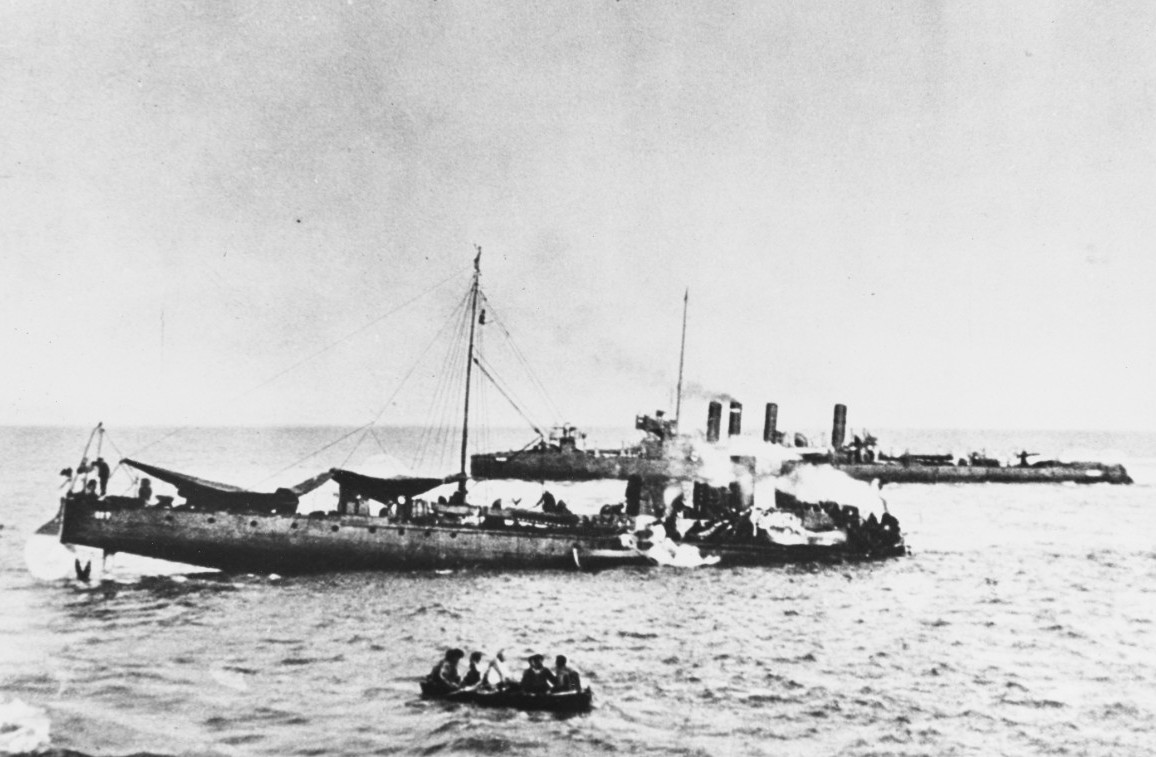 Austro-Hungarian Kaiman-class torpedo boat 51 T after being torpedoed